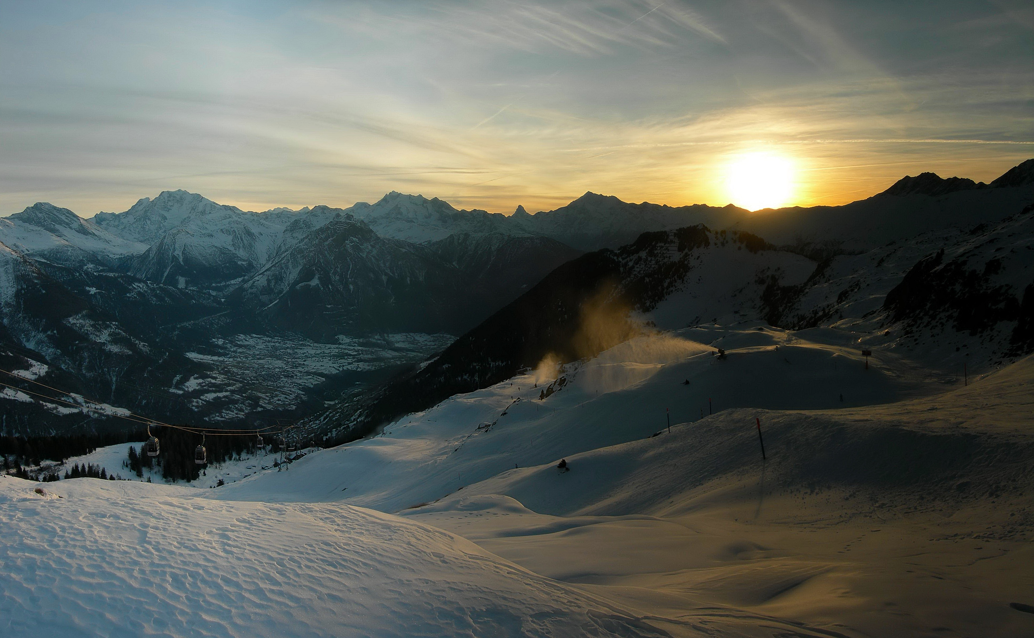 dusk at Riederalp, Valais, Switzerland